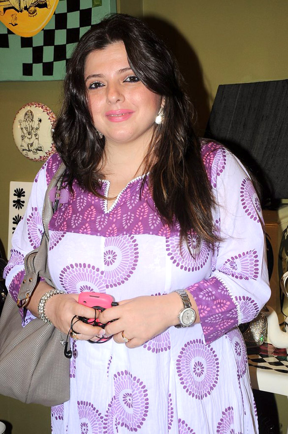 Delnaaz Paul at the opening of Fluke store.